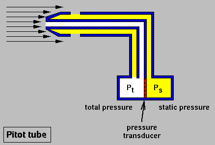 Pitot tube diagram, by mendel, based on public domain (US gov't) diagram at [1].